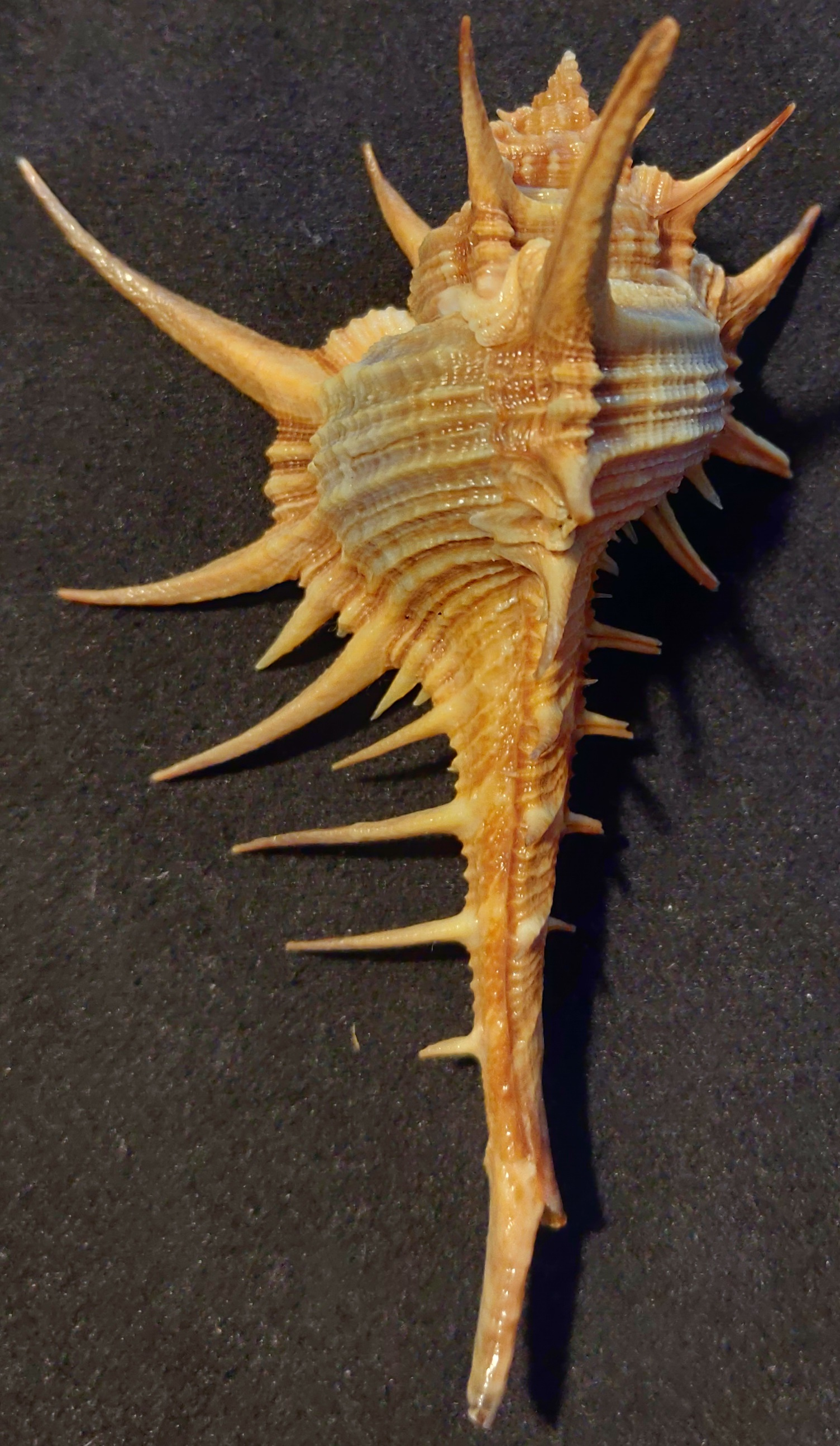 Murex Falsitribulus Back.